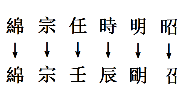 Avoidance of naming taboo in Vietnam during Nguyen Dynasty.